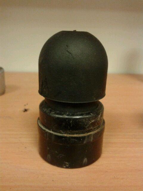 Sponge grenade model 4557 produced by combined tactical systems inc